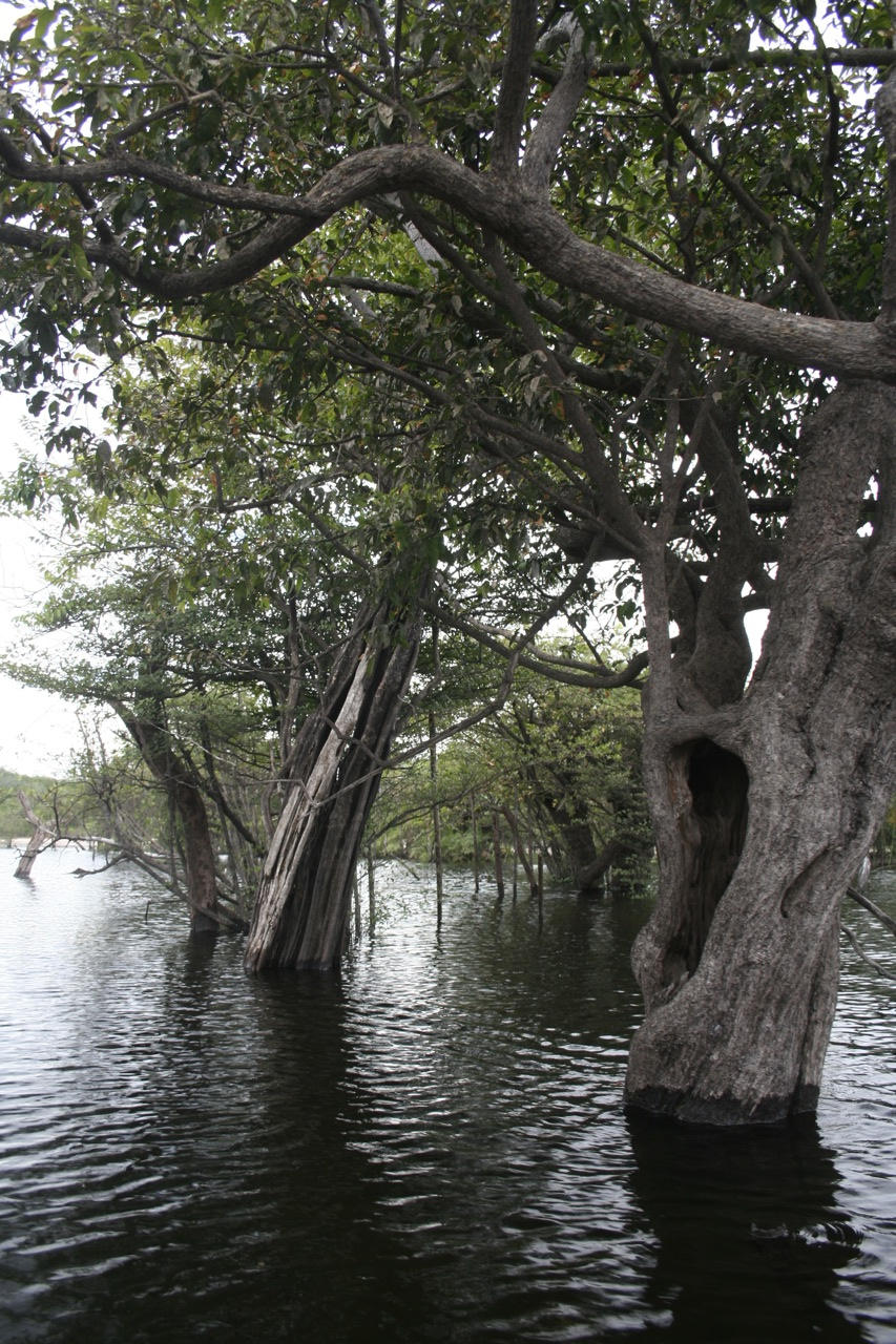 Igapo in Brazil